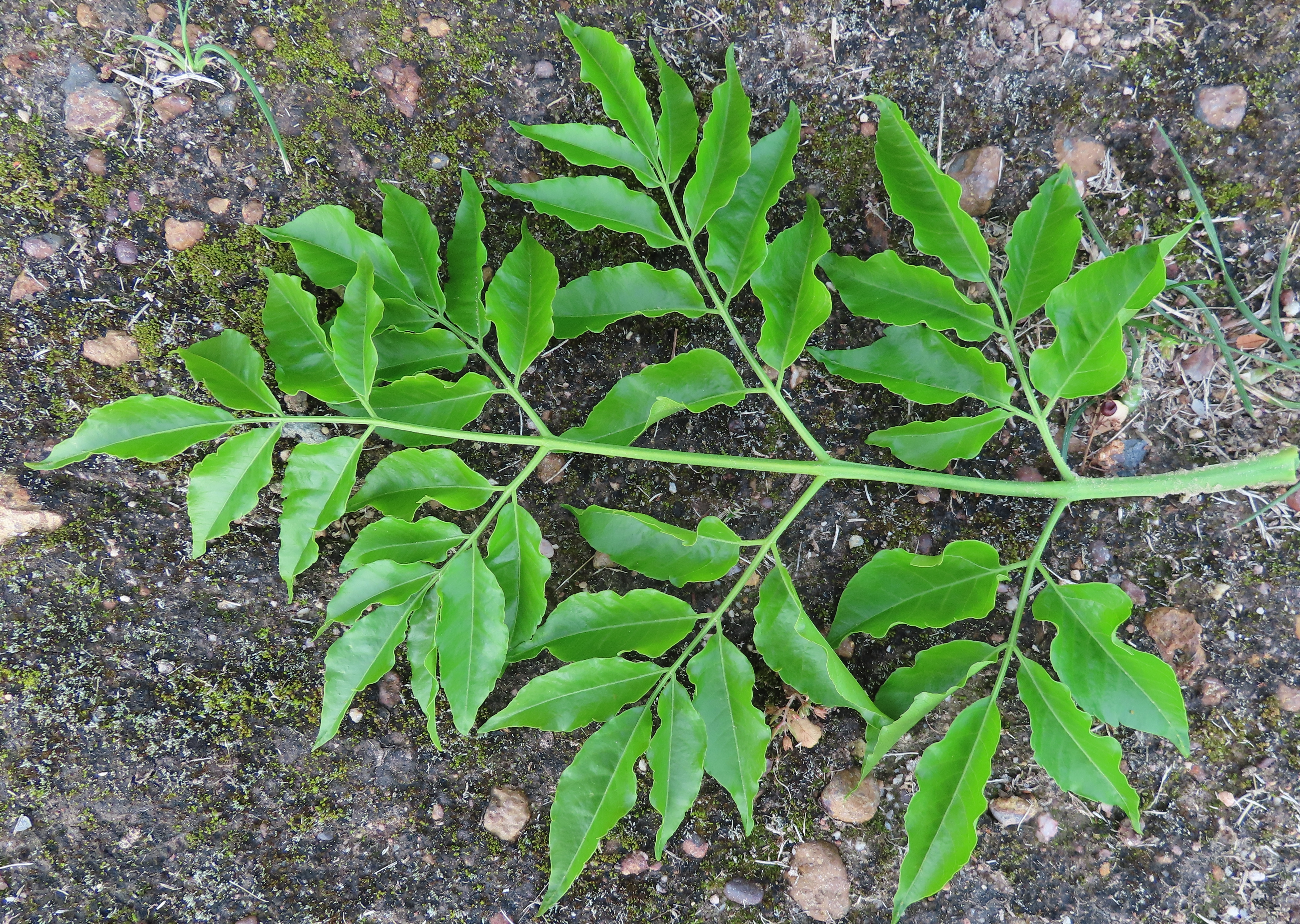 Melia azedarach doubly imparipinnate compound leaf. Each of the 7 primary leaflets of the imparipinnate primary leaf is itself compound, imparipinnate with 5 to 9 leaflets.